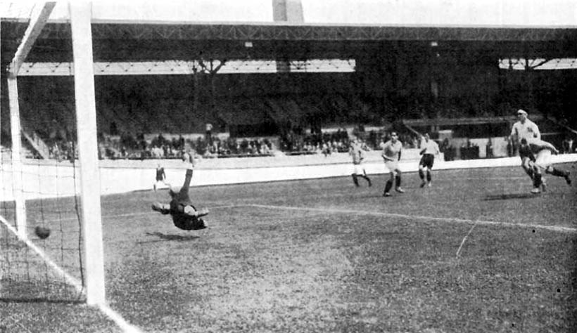 The French national football team scoring against Italy side, during the match played at the 1928 Olympics in Amsterdam.